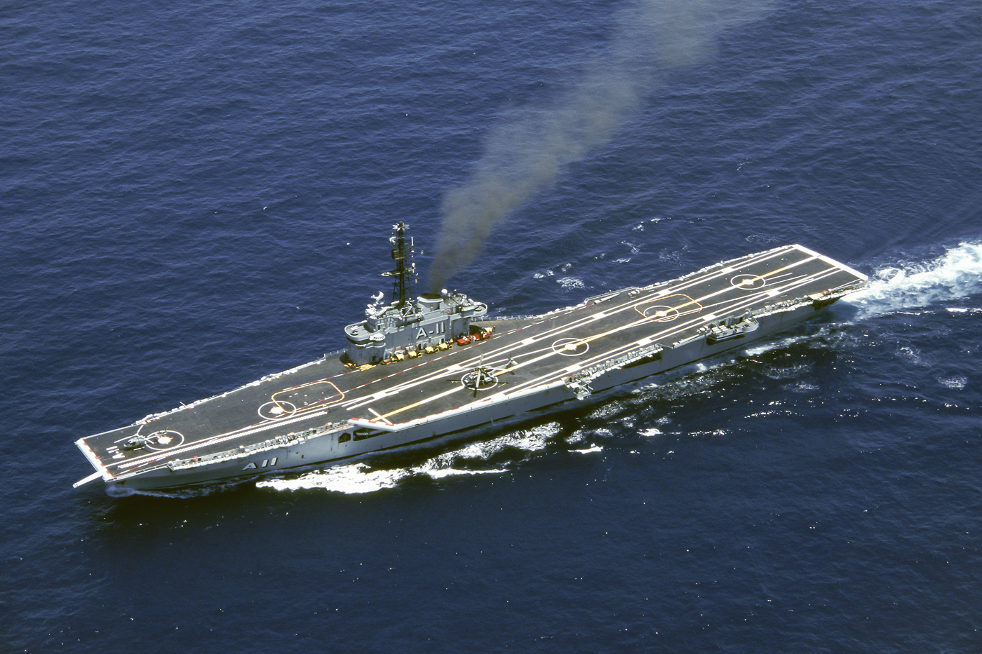 South Atlantic, October 1996. NAeL Minas Gerais (A11) was the first Brazilian aircraft carrier. She was in service between 1960 and 2001, and scrapped in India in 2004. By then the shipo was replaced by NAe São Paulo (A12), the former FNS Foch of the French Navy. The Minas Gerais was the last of the Colossus-class and launched by Swan Hunter (England) as HMS Vengeance in February 1944. She was completed too late to see action in WW2. After the war HMS Vengeance (R71) was used by the Royal Navy and served in the Australian Navy from 1952 to 1955. After a mayor refit in Rotterdam she sailed to her new owner, the Brazilian Navy. When the ship left service she was the oldest aircraft carrier in the world and the largest navy ship south of the equator.